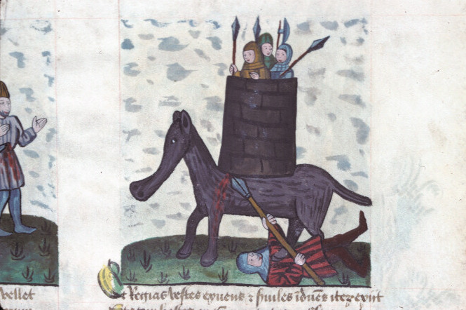 Speculum humanae salvationis Lyon - BM - ms. 0245 - f. 144